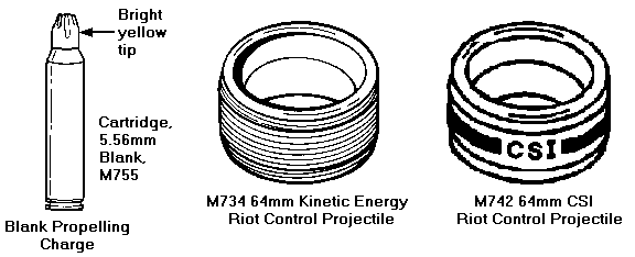 M234 launcher 64mm ammunition line drawing (converted to PNG from GIF)